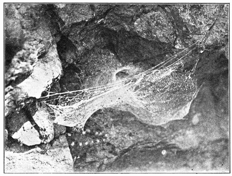 Web of Tegenaria medicinalis in a hollow of a rock, the front edge held up by threads running across the hollow, and the mouth of the tube showing behind it.